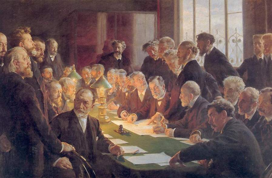 This is a study for the (much larger) 1890 painting in the Carlsberg Museum.